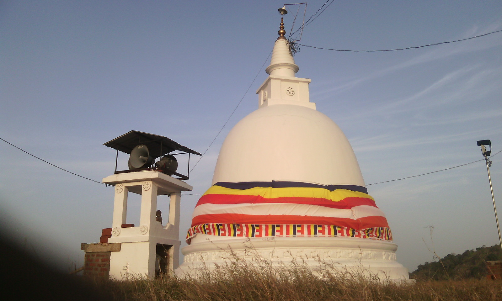 The pagoda kotaveheragala temple